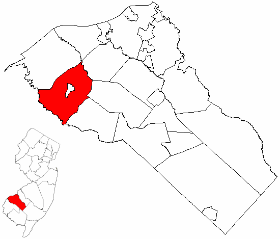 Map of Gloucester County highlighting Woolwich Township